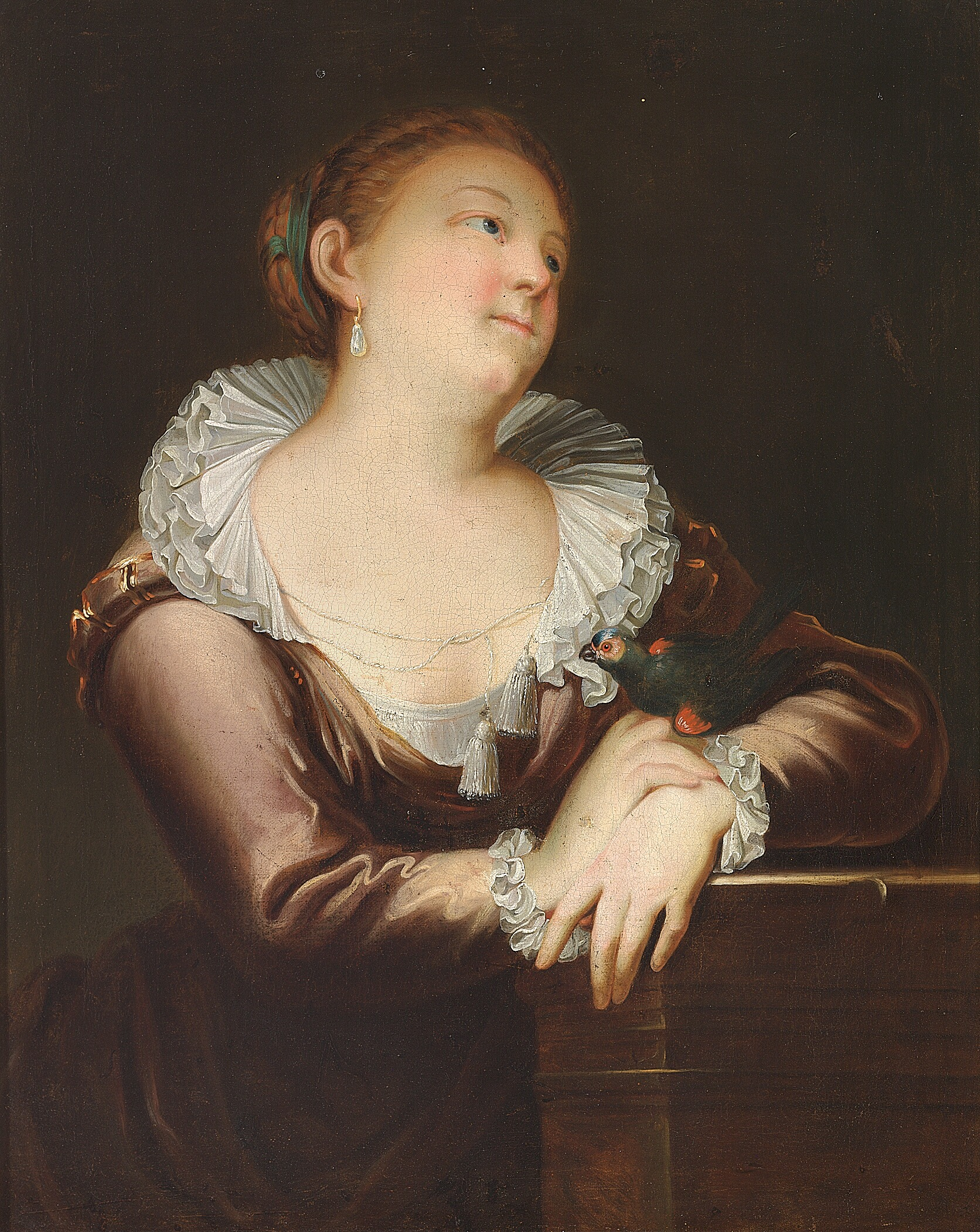 Ellen Maria Smidth (later known as Eline Heger) (1774-1842) was a leading actress at the Royal Theater of Copenhagen. Her role in Johan Samsøe's Dyveke, et Sørgespil in 1796 created a sensation and was widely acclaimed. She married the actor Stephan Heger and went on to play numerous leading parts until 1832.